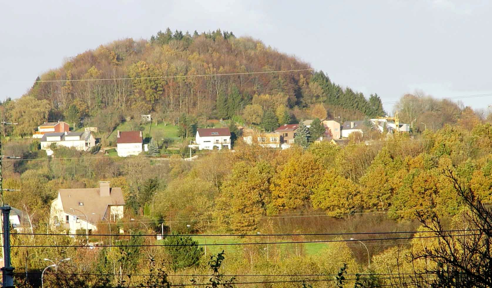 Zolwerknapp, hill in Soleuvre